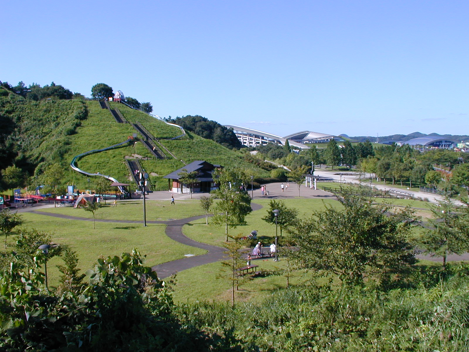 Miyagi Sports Park, aka Grande 21, viewed from the southern edge